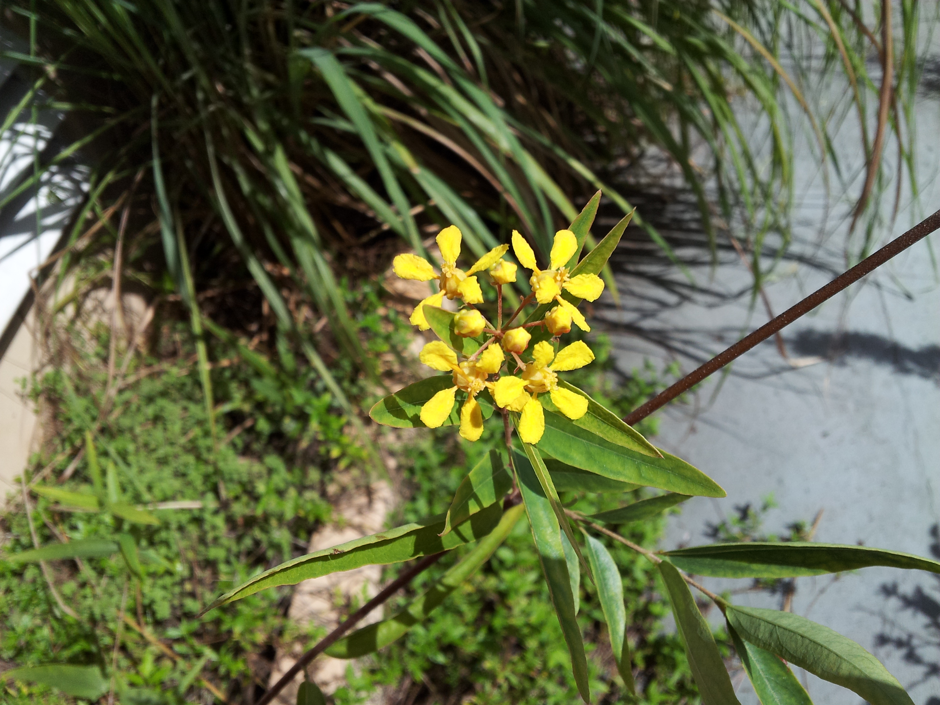 False Linden, Butterfly Flower, Little Butterfly Plant, with yellow flowers